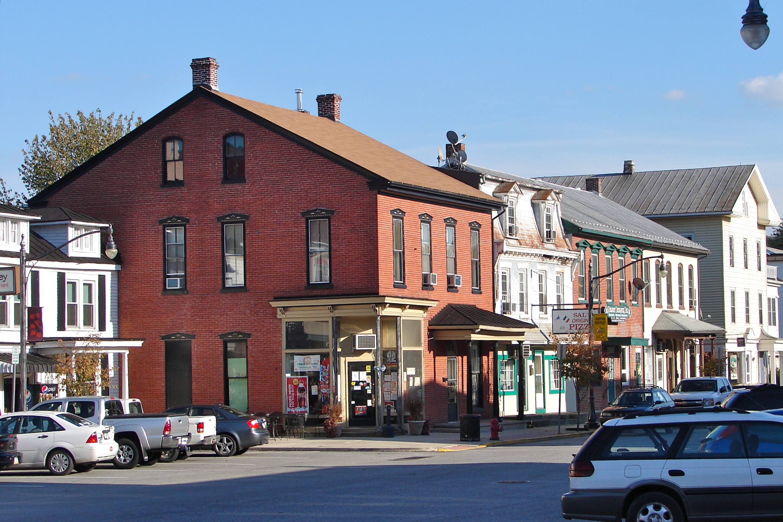 Newport Historic District on the NRHP since March 12, 1999. The district is roughly bounded by Fickes Lane, Oliver Street, Front Street, Little Buffalo Run, Bloomfield Avenue, and Sixth Street, Newport and Oliver Township, Perry County, Pennsylvania. These particular buildings are on South 2nd Street (east side) just south of Center Square. The 2.5 story brick building is c. 1870, number 23 S. 2nd.